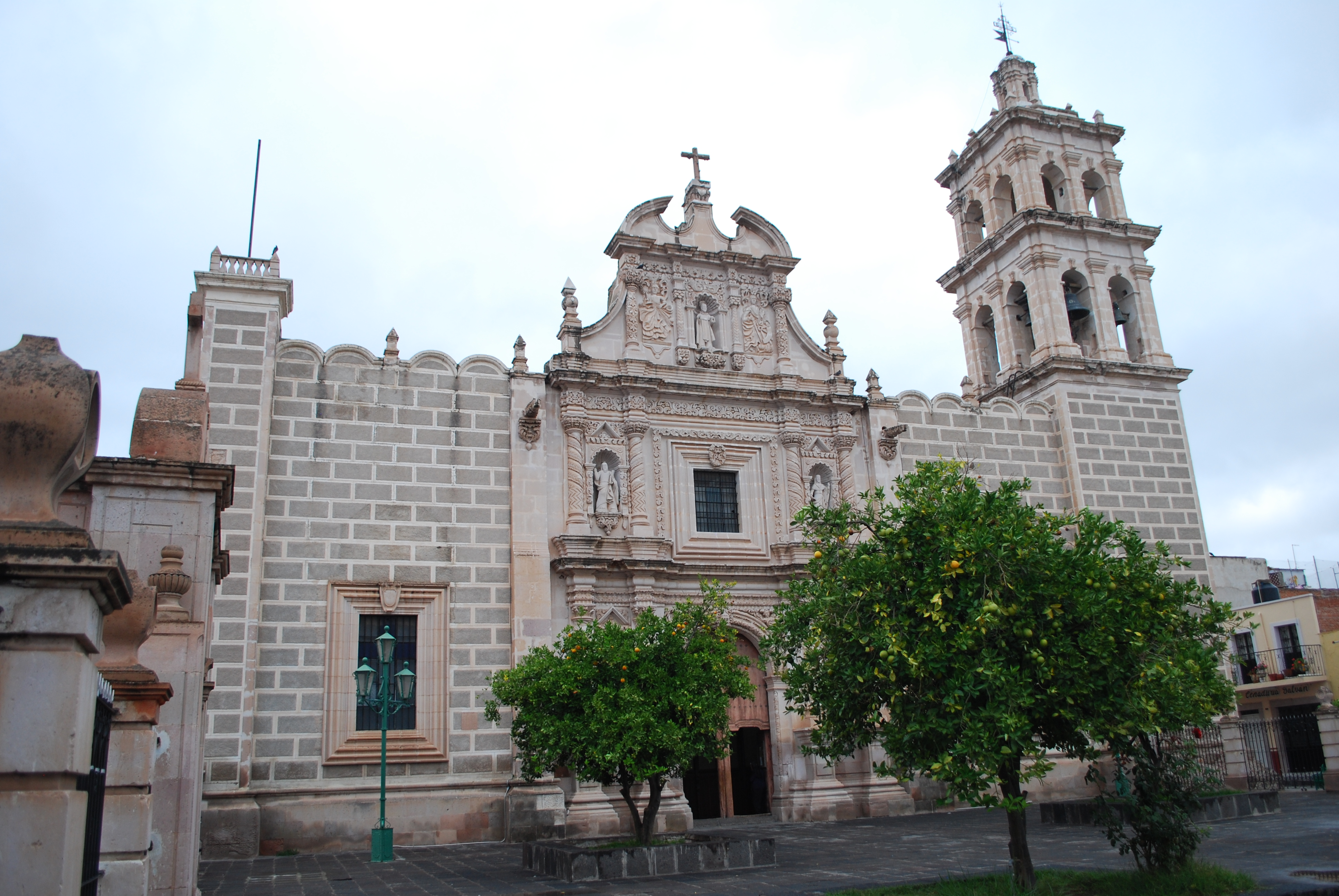 Inmaculada Concepción parish in Jerez, Zacatecas